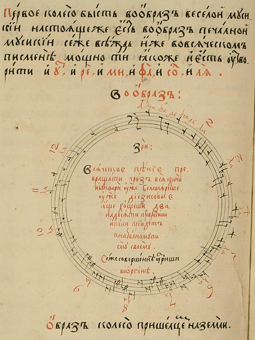 Circle of fifths featured in the 1679 version of Nikolay Diletsky's "Idea grammatiki musikiyskoy."